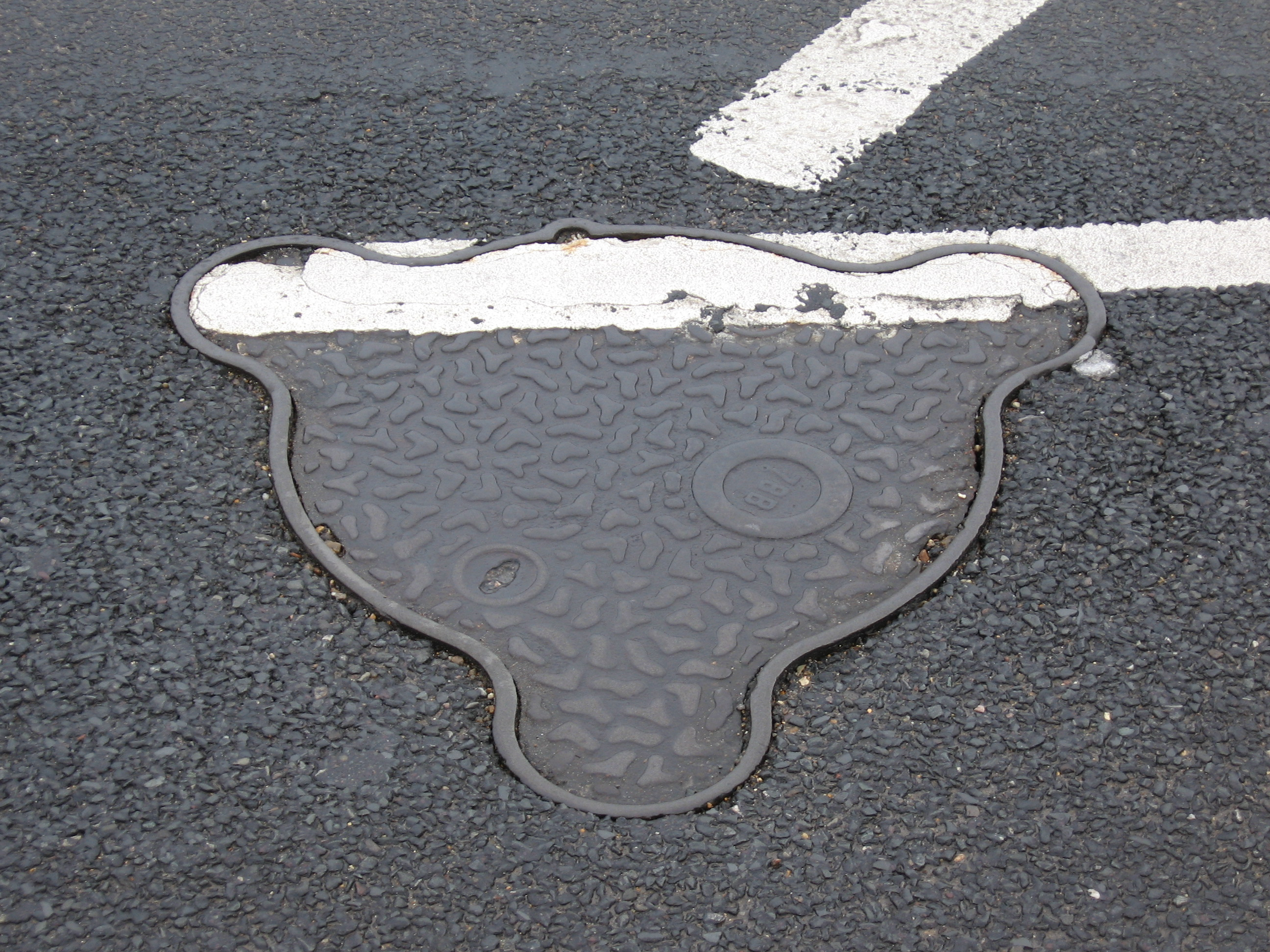 Manhole cover in Earls Colne